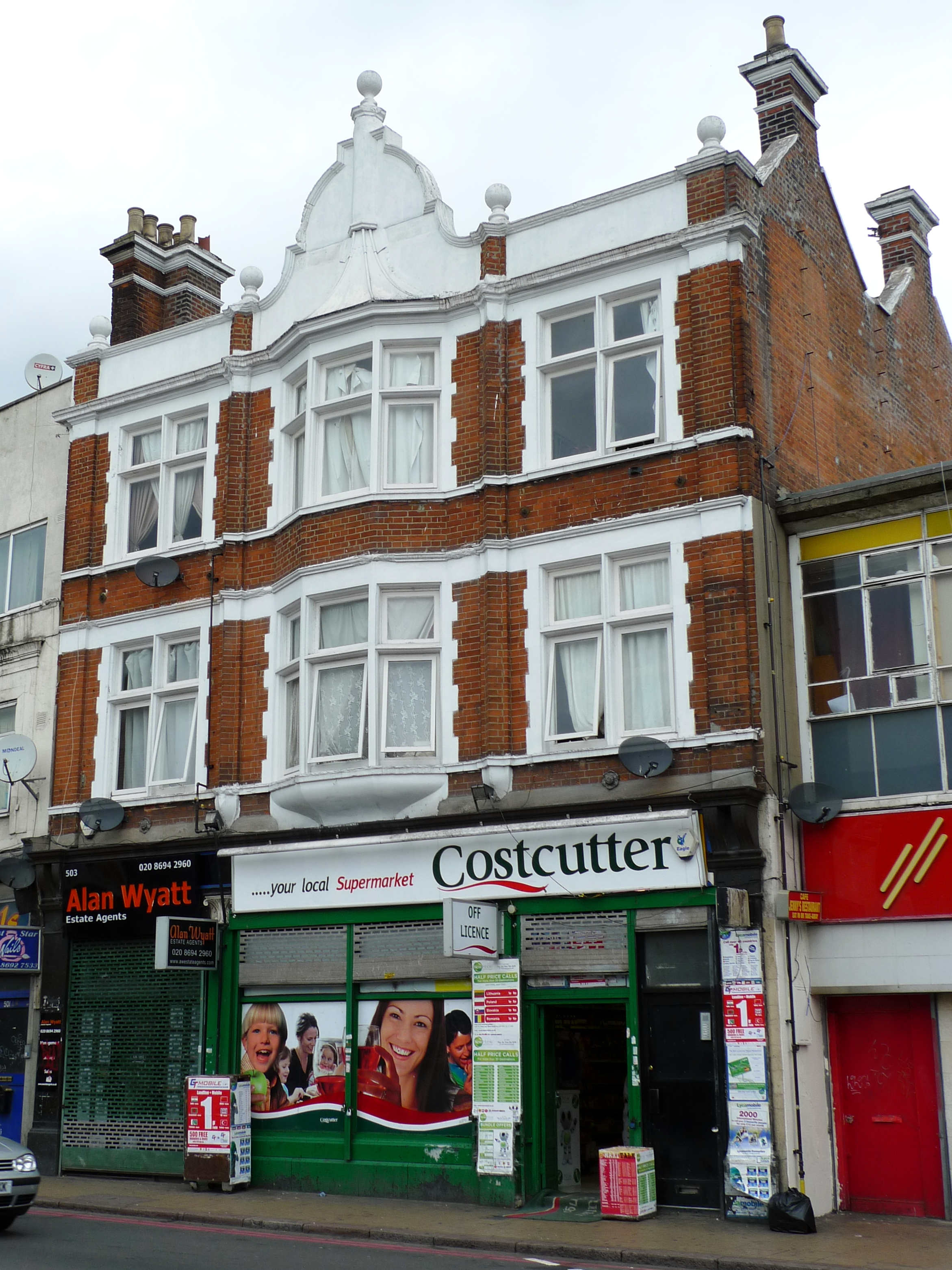 A former pub, now a shop, just by Deptford High St. Address: 503 New Cross Road. Former Name(s): The Lord Duncan. Links: Dead Pubs (history)